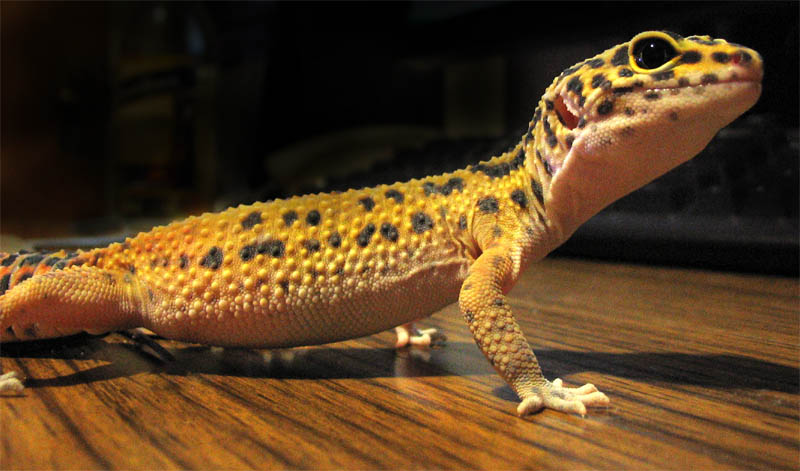 William the lizard